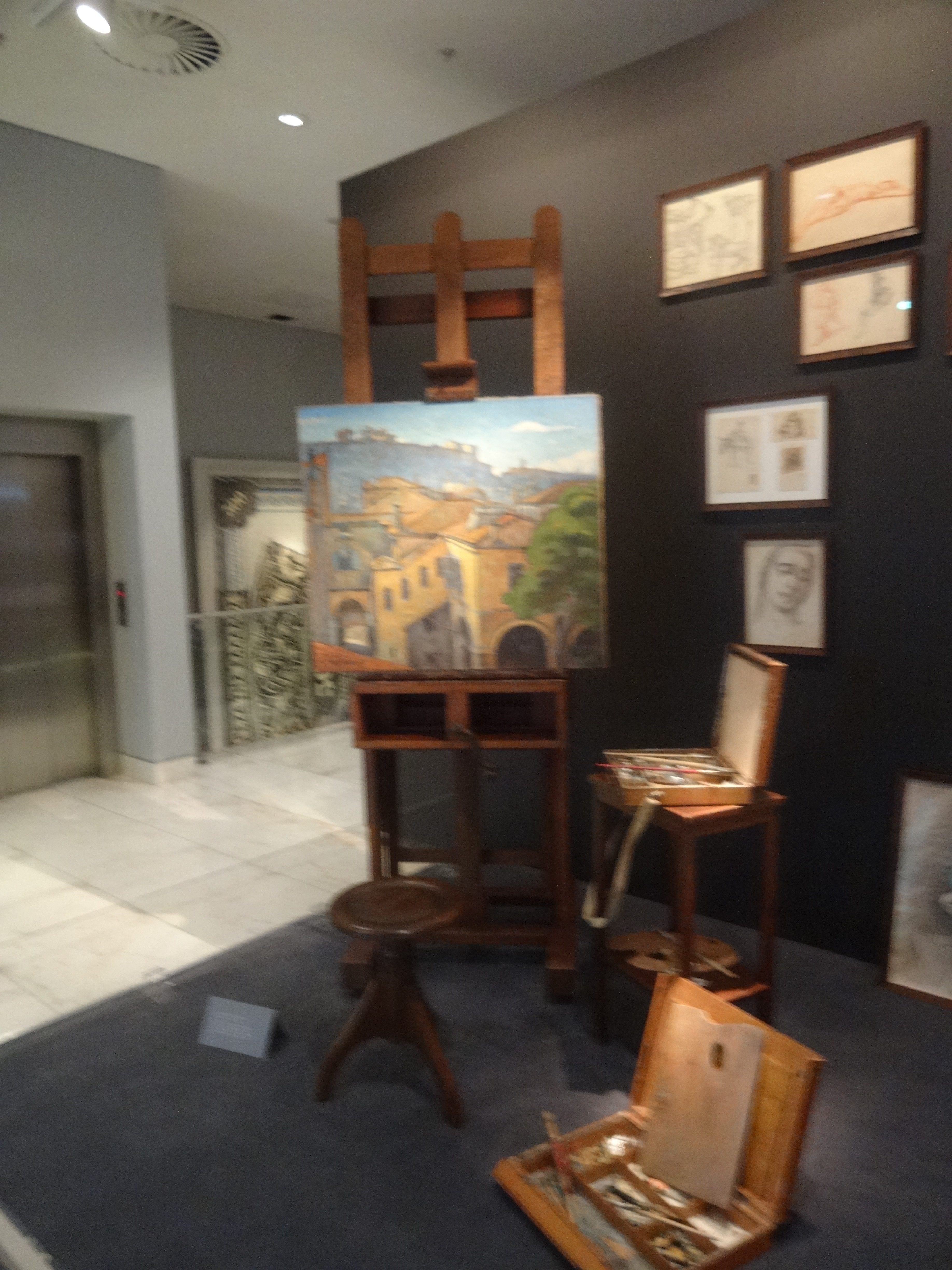 Museum of Bank of Greece. Easel of Greek artist Michael Axelos